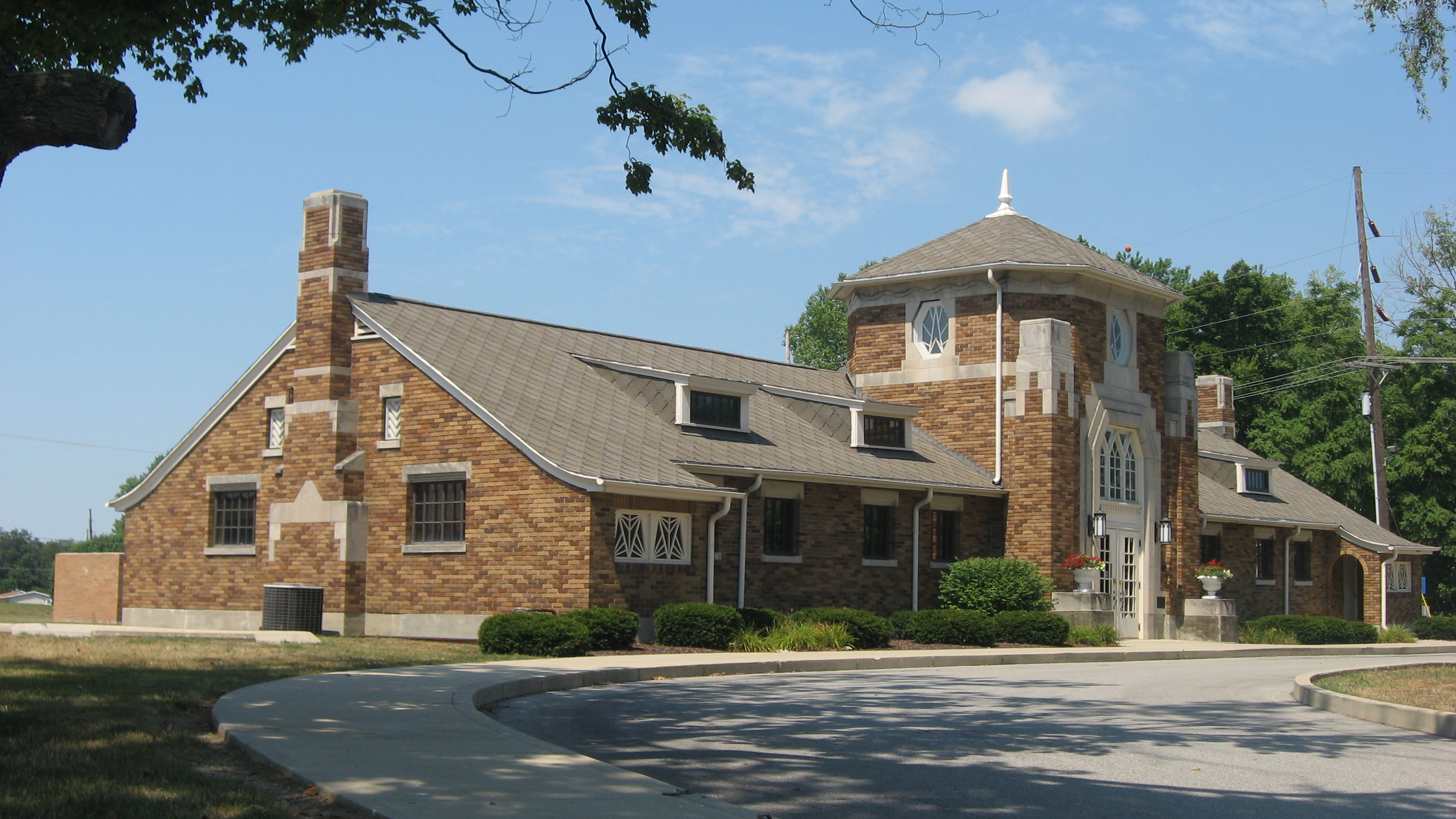 Southern end and front of the Porter Pool Bathhouse, located at 501 N. Harrison Street (State Road 9) in Shelbyville, Indiana, United States. Built in 1930, it is listed on the National Register of Historic Places.